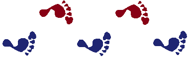 Frieze group example with feet under John Conway's nicknames